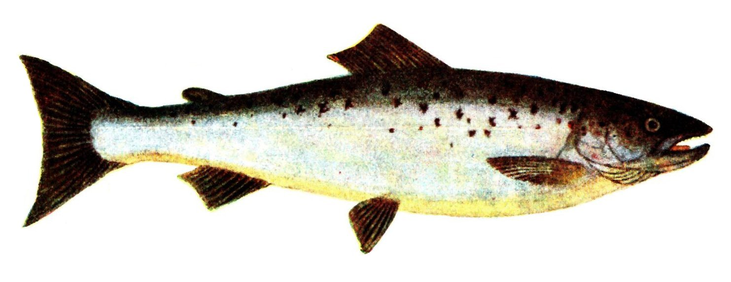 Salmo salar